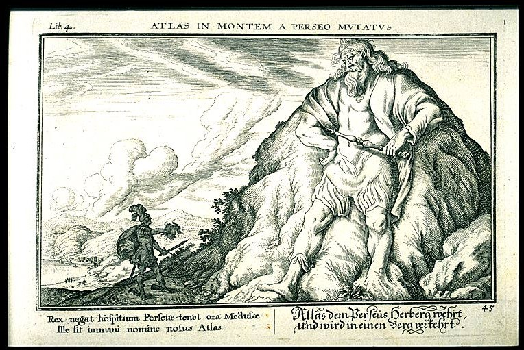 Johann Wilhelm Baur (1607-1647) Ovid's Metamorphoses - Atlas and Perseus